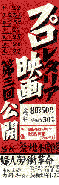 Poster of proletarian movie screening